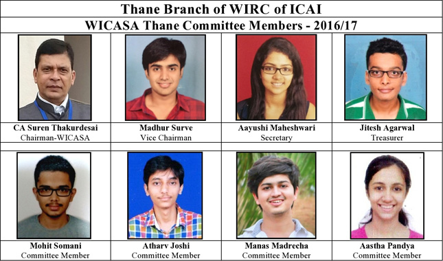 Committee Members of Thane WICASA 2016-17